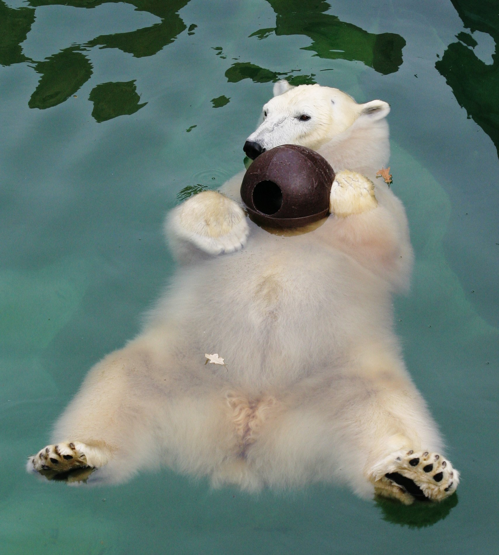 A Polar Bear floating at the Henry Doorly Zoo in Omaha, Nebraska.